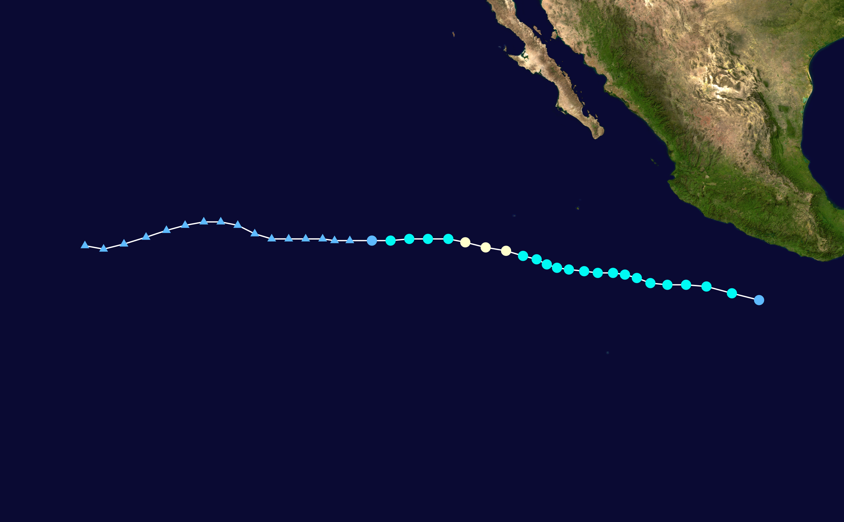 Track map of Hurricane Genevieve of the 2008 Pacific hurricane season. The points show the location of the storm at 6-hour intervals. The colour represents the storm's maximum sustained wind speeds as classified in the Saffir–Simpson scale (see below), and the shape of the data points represent the nature of the storm, according to the legend below. Saffir–Simpson scale Tropical depression≤38 mph≤62 km/h Category 3111–129 mph178–208 km/h Tropical storm39–73 mph63–118 km/h Category 4130–156 mph209–251 km/h Category 174–95 mph119–153 km/h Category 5≥157 mph≥252 km/h Category 296–110 mph154–177 km/h Unknown Storm type Tropical cyclone Subtropical cyclone Extratropical cyclone / Remnant low / Tropical disturbance / Monsoon depression